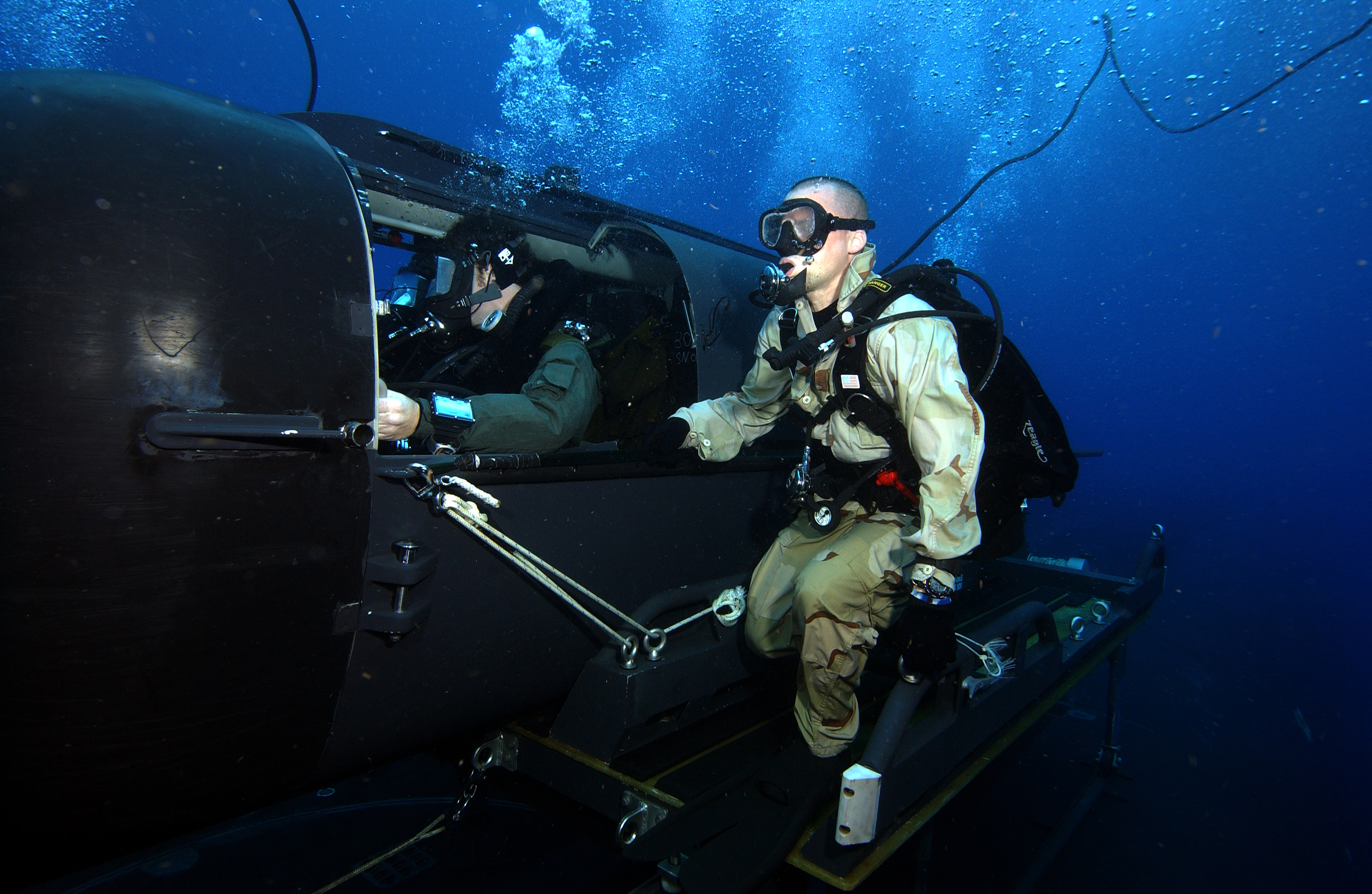 A Navy diver and special operator from SEAL Delivery Team (SDV) 2 perform SDV operations with the nuclear-powered guided-missile submarine USS Florida (SSGN 728) for material certification. Material certification allows operators to perform real-world operations anytime, anywhere.